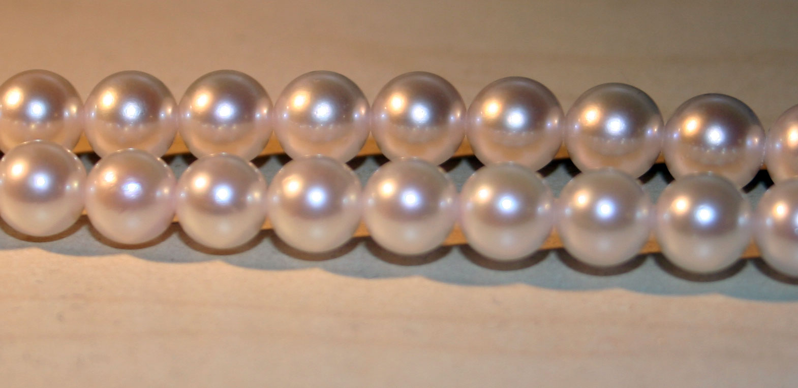 Strands of akoya cultured pearls from China. These pearls are 6.5 to 7mm in diameter. Their luster is average. Shot by Effisk